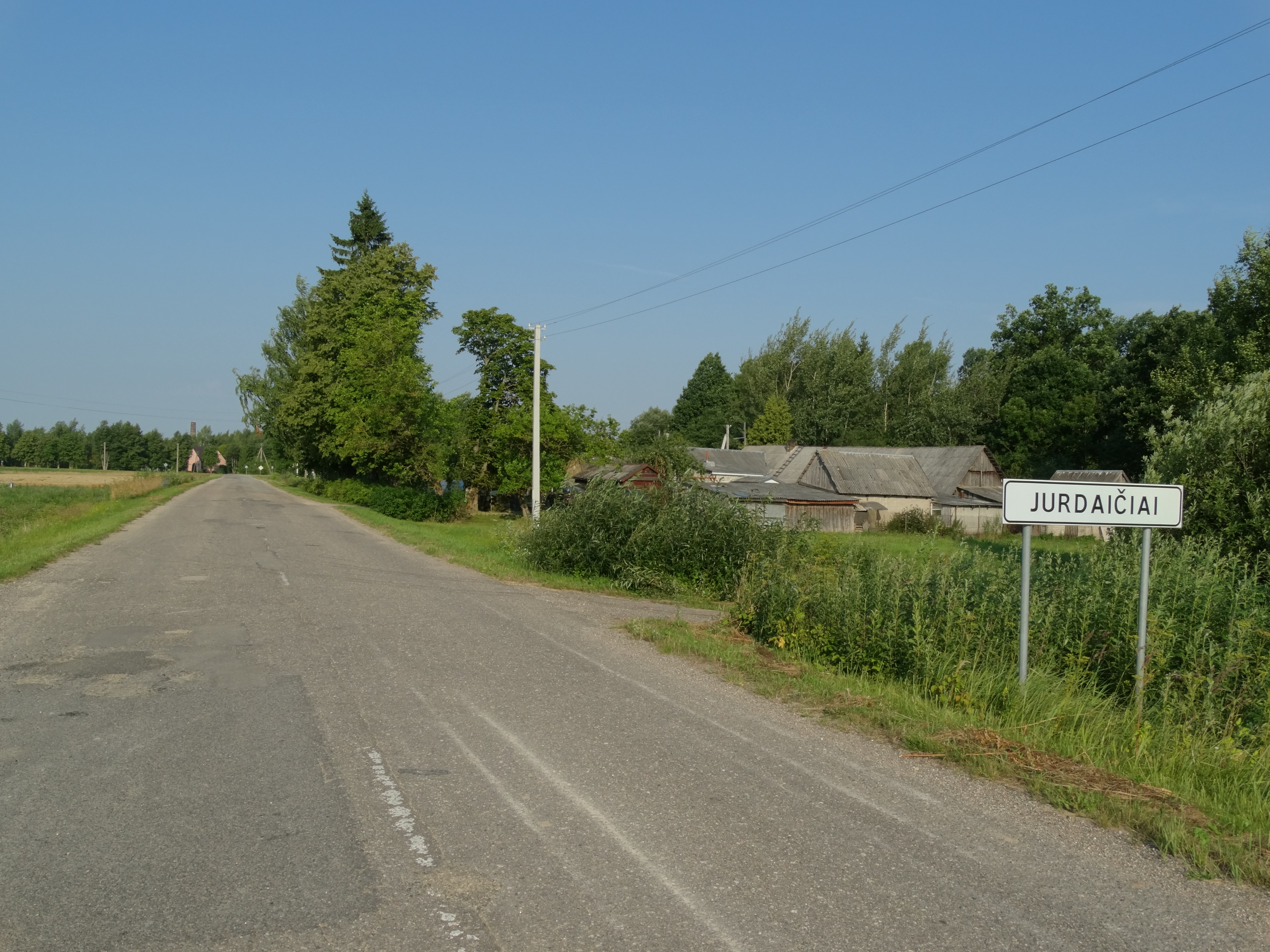 Jurdaičiai, Joniškis District, Lithuania